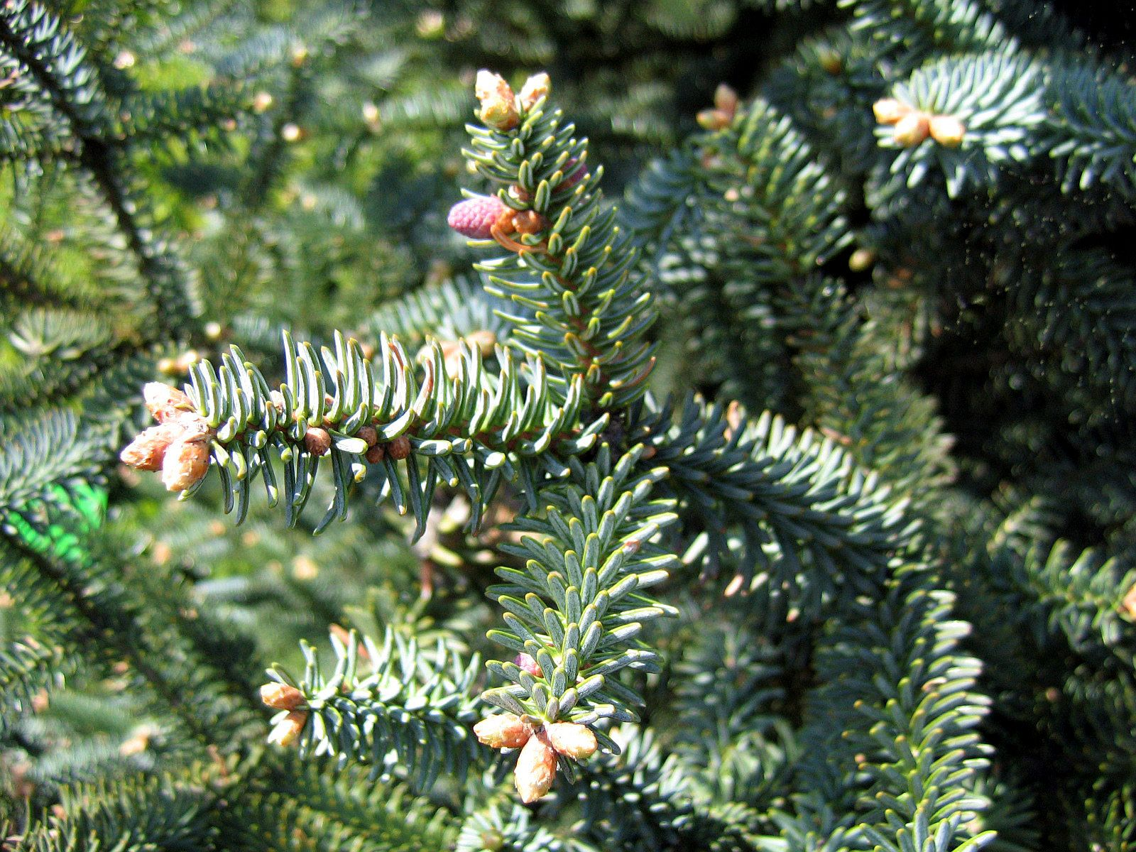 Spanish Fir 'Glauca' (Abies pinsapo 'Glauca'), cultivated in Wrocław University Botanical Garden, Wrocław, Poland.